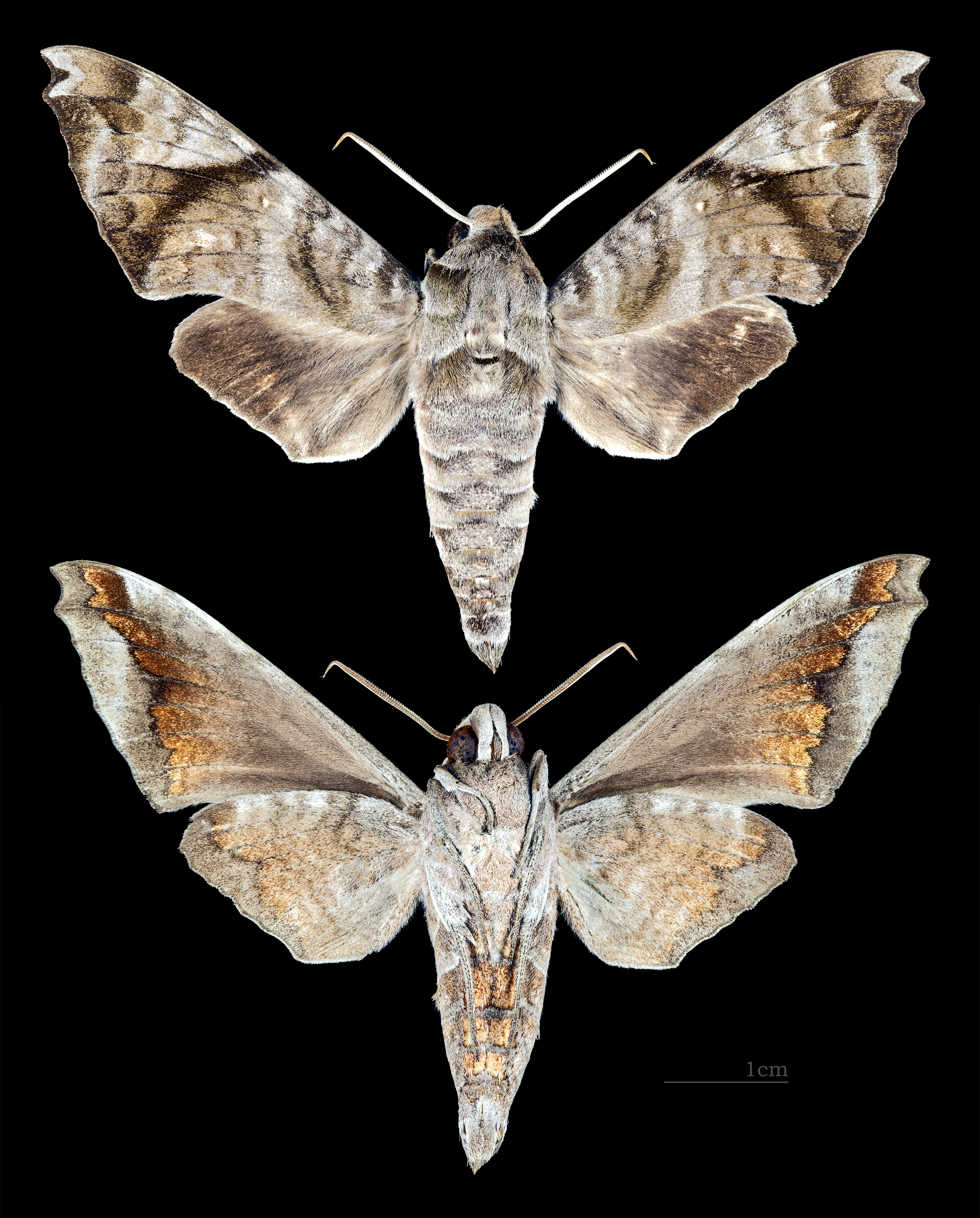 Acosmeryx pseudomissa - Two views of same specimen Collection of the Mathematician Laurent Schwartz